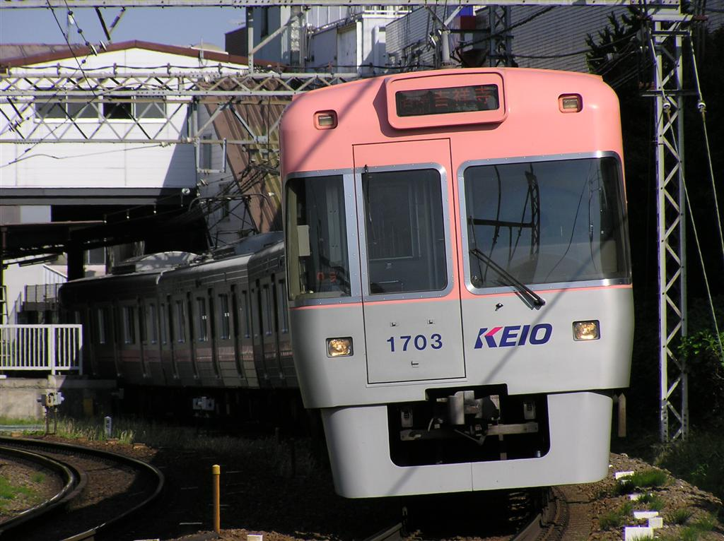 I don't understund English. I can use Japanese only. Sorry. Date taken（撮影日） 2006/5/4 Taken human（撮影者） Ichikawa Taichi （市川太一） Place of photo（撮影地） 東松原～明大前 Description（内容） 1703F Not Cropped（非トリミング） Released to Public Domain so all free to use.